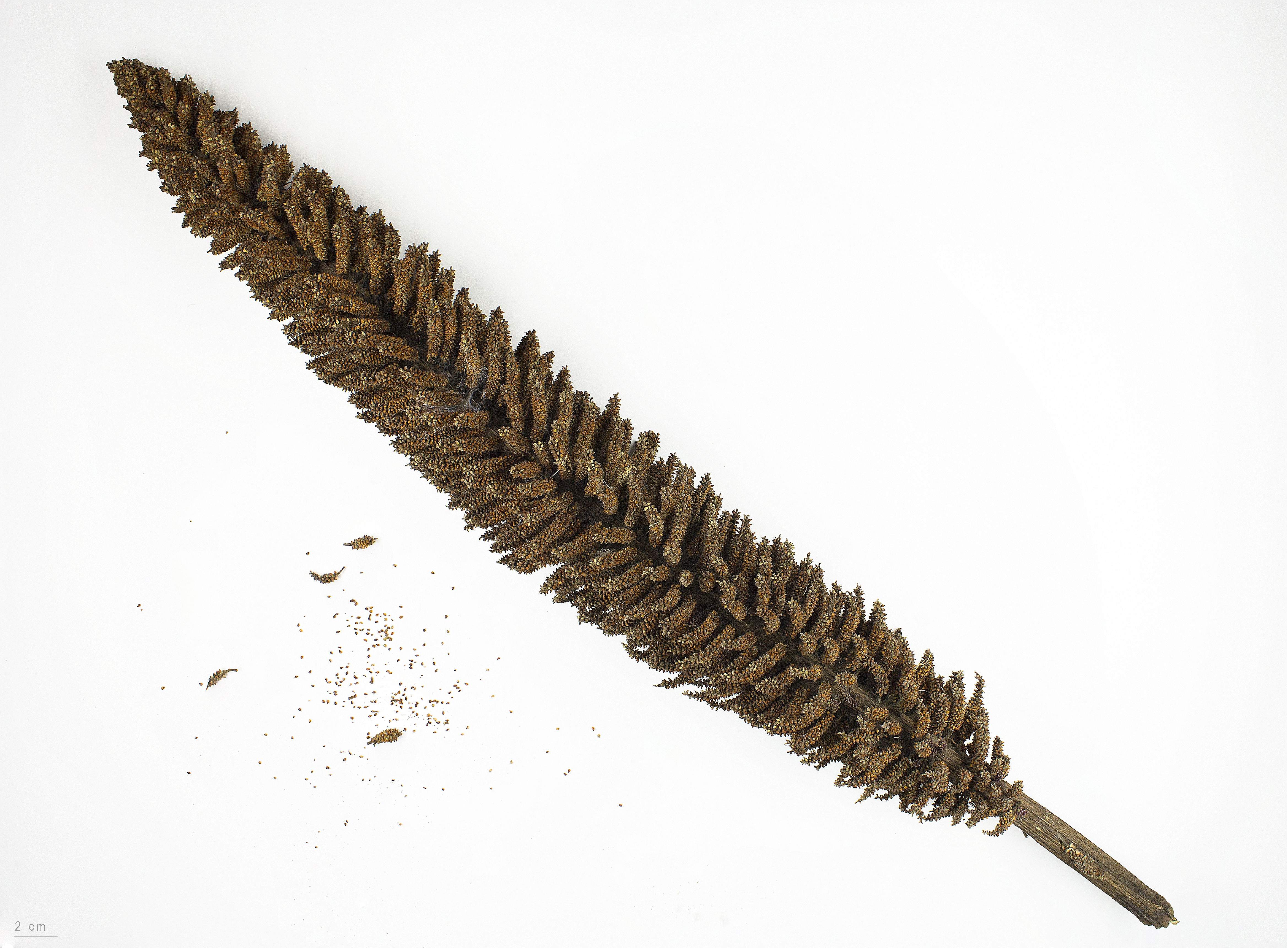 giant-rhubarb, fruits and seeds